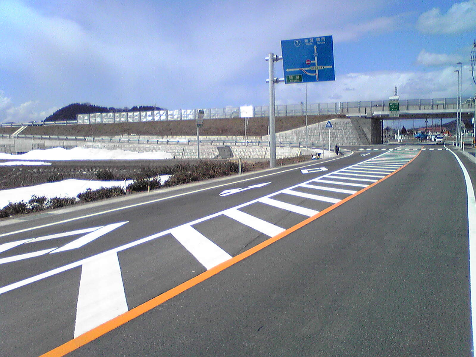 Murakami-Saberi Interchange on Nihonkai-Tohoku Expressway, Japan, from the east side of the interchange